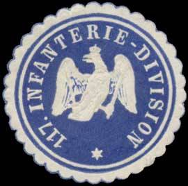 Sealing stamp Title: 117. Infanterie-Division Description: Place: Mainz size: 4 cm